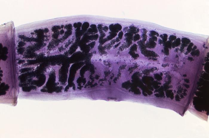 Under a very low magnification of only 8X; this photomicrograph revealed some of the ultrastructural morphology exhibited by three Taenia solium proglottids. Proglottids of Taenia spp. Gravid proglottids are longer than wide and the two species, T. solium and T. saginata, differ in the number of primary lateral uterine branches: T. solium contains 7-13 lateral branches and T. saginata 12-30 lateral branches. Adults of Taenia spp. can reach a length of 2-8 meters, but the hooked scolex, located at the head region, is only 1-2 millimeters in diameter. Taeniasis is the infection of humans with the adult tapeworm of Taenia saginata or Taenia solium. Humans are the only definitive hosts for these two tapeworm species.